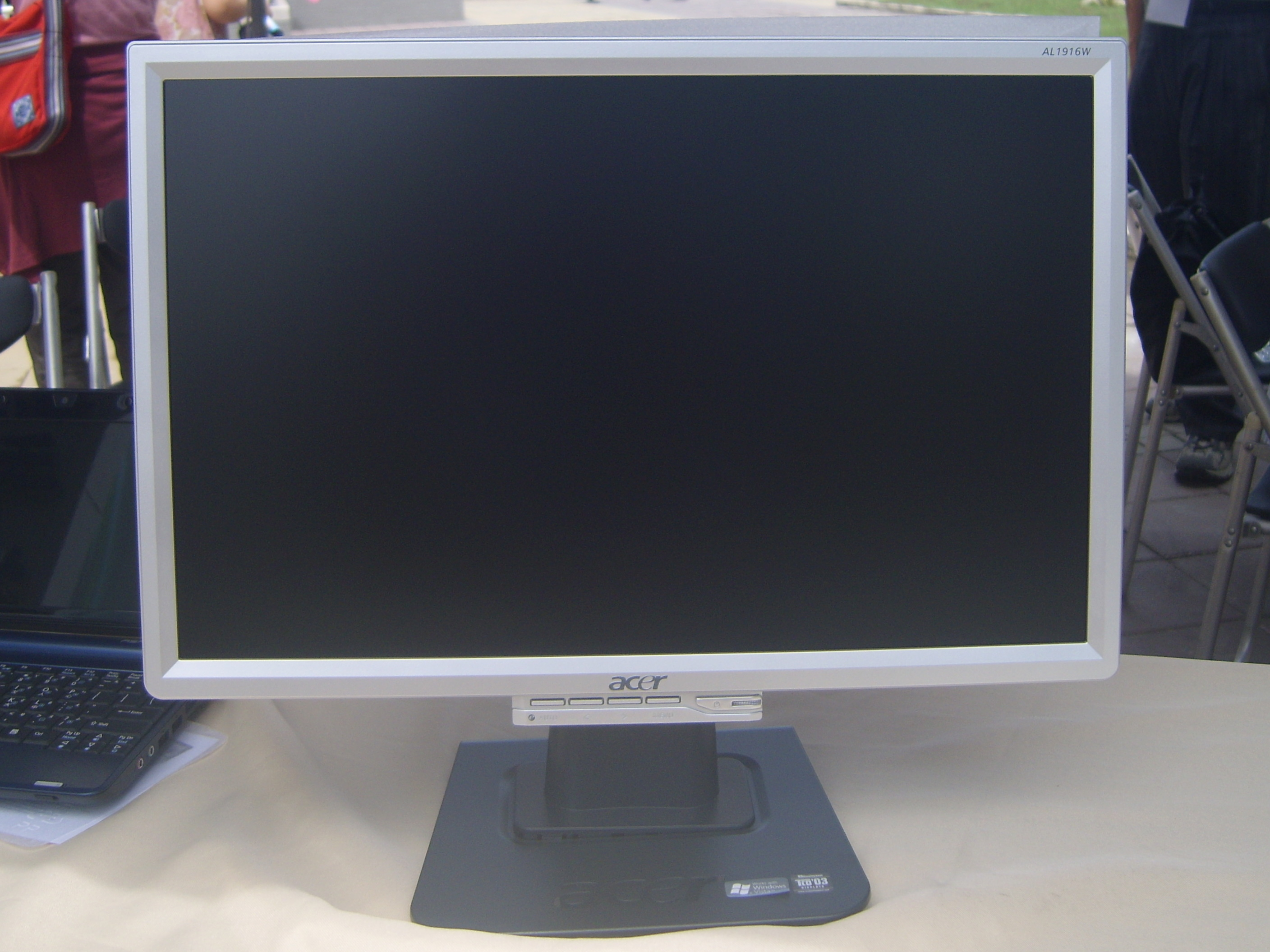 Launch of Guang Hua Digital Plaza: Acer AL1916W LCD Monitor.